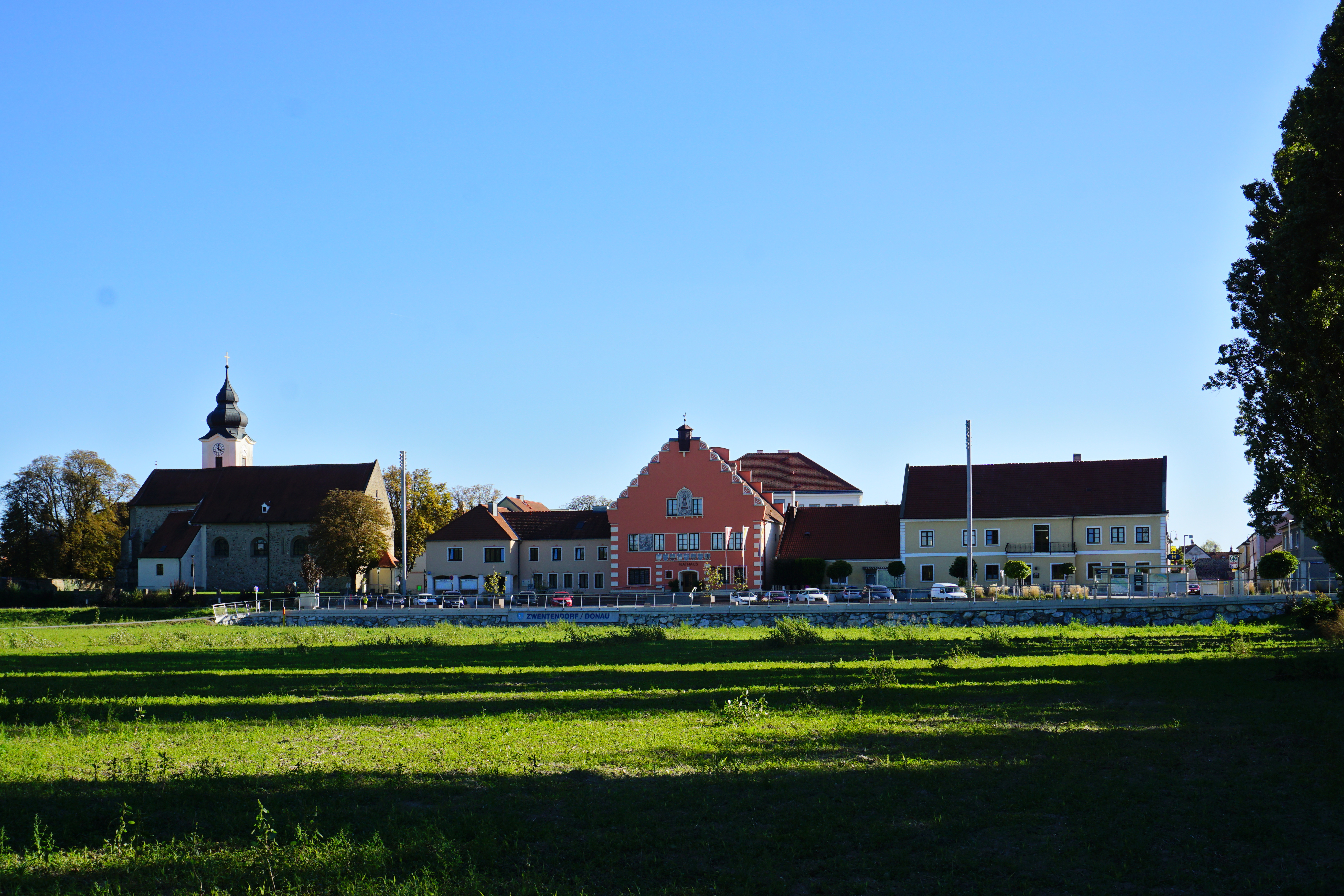 Zwentendorf an der Donau